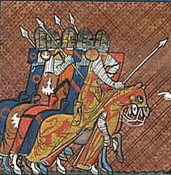 Theobald I of Navarre and soldats